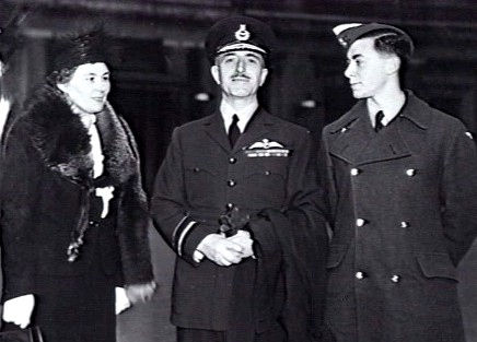 London, England. 1945-05-01. With his wife and son after receiving the order of the CB at an investiture at Buckingham Palace is Air Vice Marshal F. H. McNamara VC, RAF.